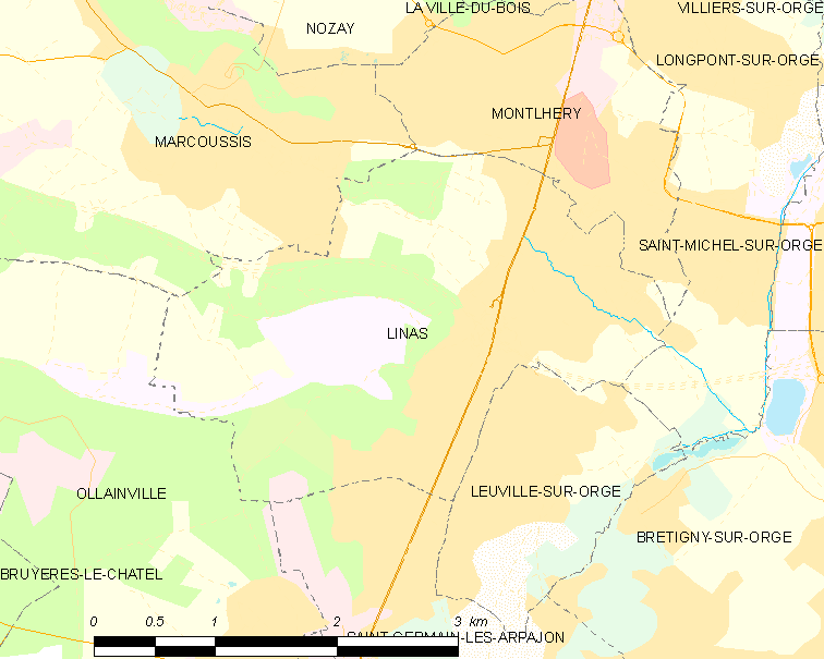 Map of French municipality Linas